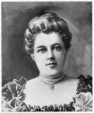 Malvina Belle Ogden Armour wife of Philip Danforth Armour